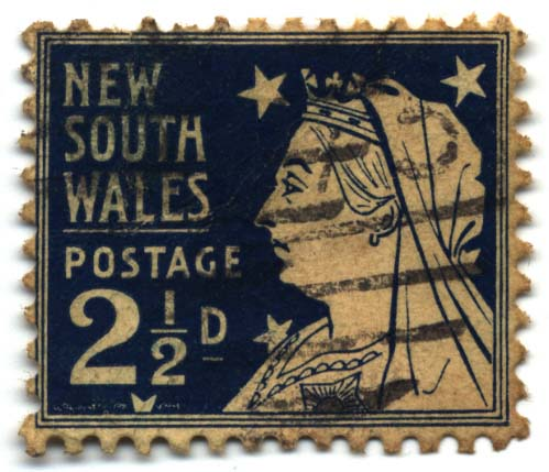 Scan of New South Wales 2 1/2-pence stamp of 1897